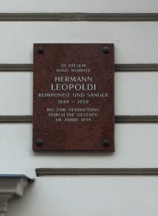 Plaque commemorating composer and singer Hermann Leopoldi at Marxergasse 25 in Vienna, the house where he lived until his arrest by the Gestapo in 1938.